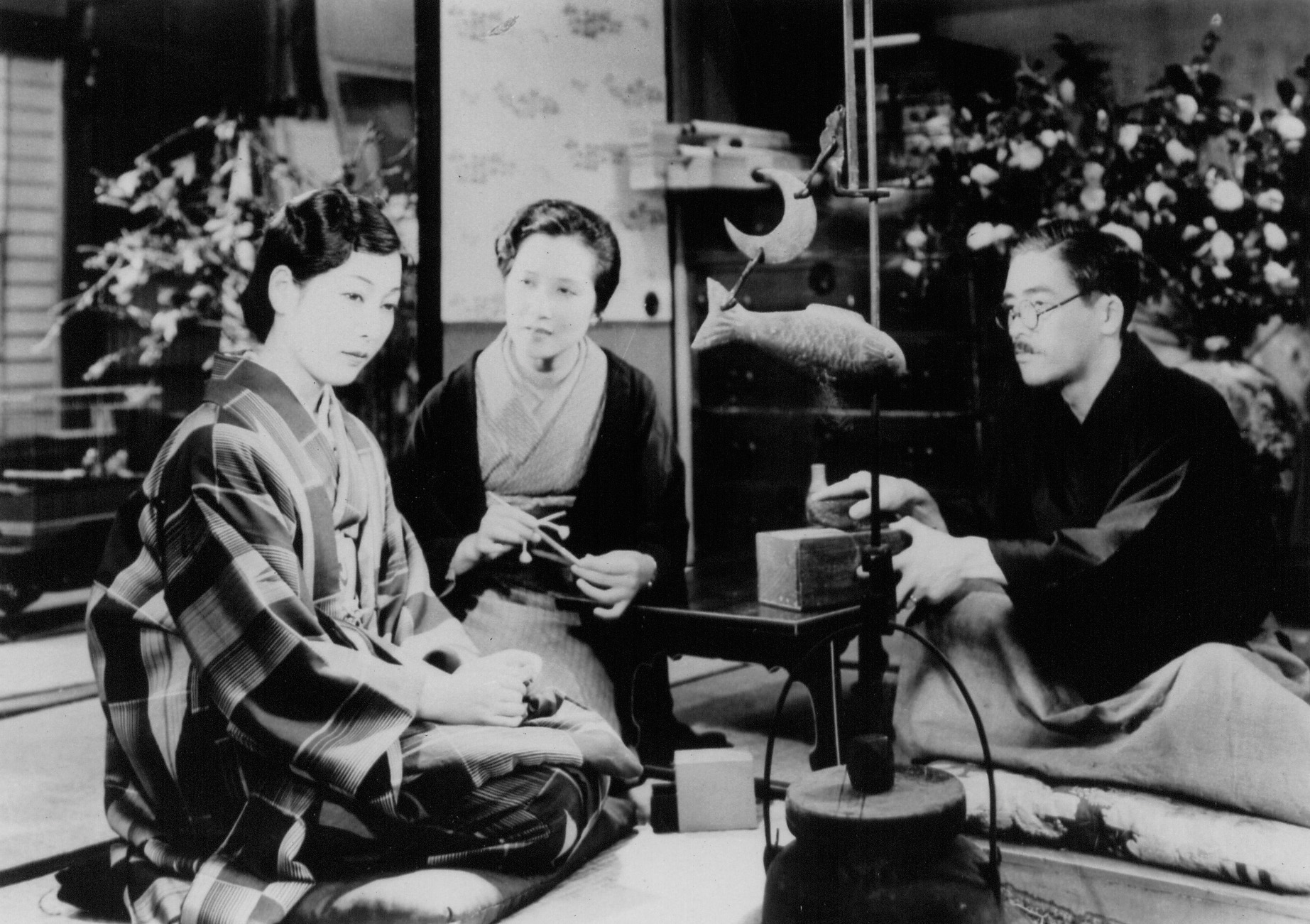 From left to right: Sachiko Chiba, Chikako Hosokawa and Kamatari Fujiwara in Tsuma yo bara no yo ni (1935) directed by Mikio Naruse